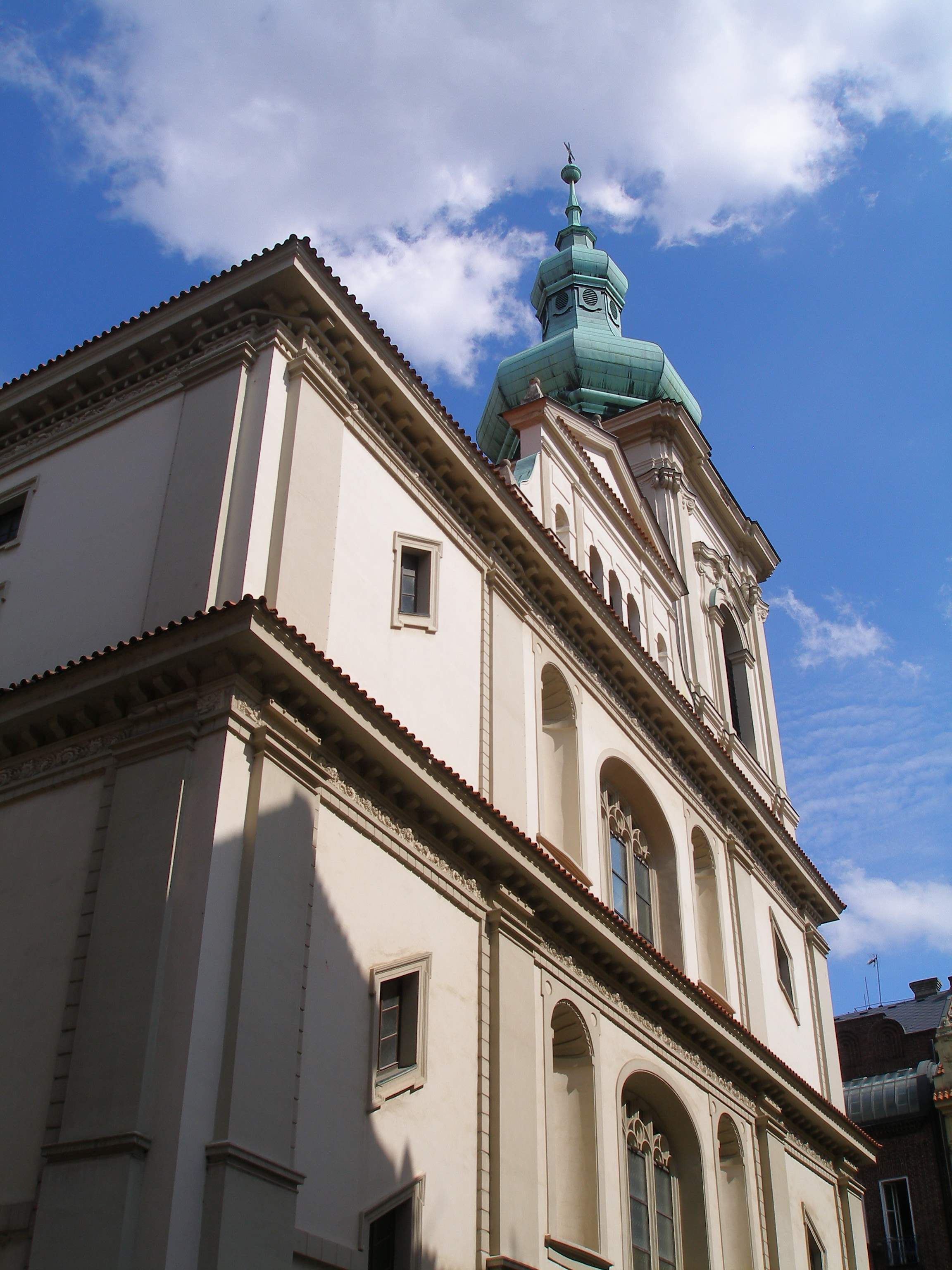 Praha 1 - Staré Město (Salvátor), church of ČCE